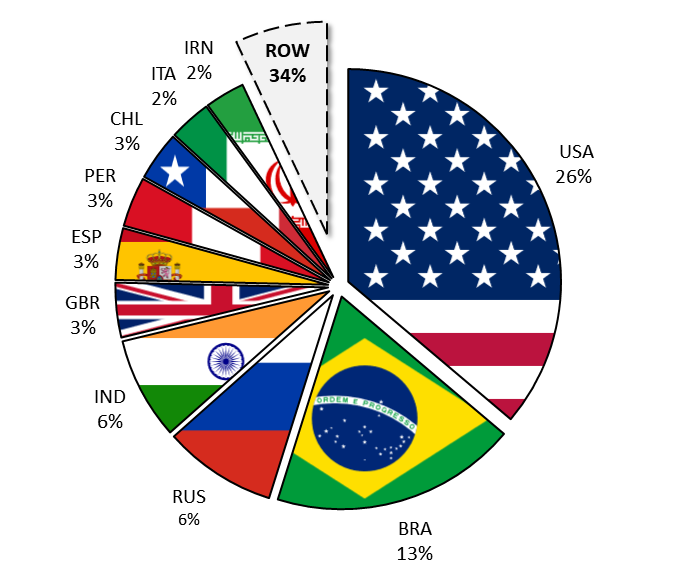 Pie chart of the first ten countries in the world for coronavirus infection (+ rest of the world) with annexed percentage of the total.